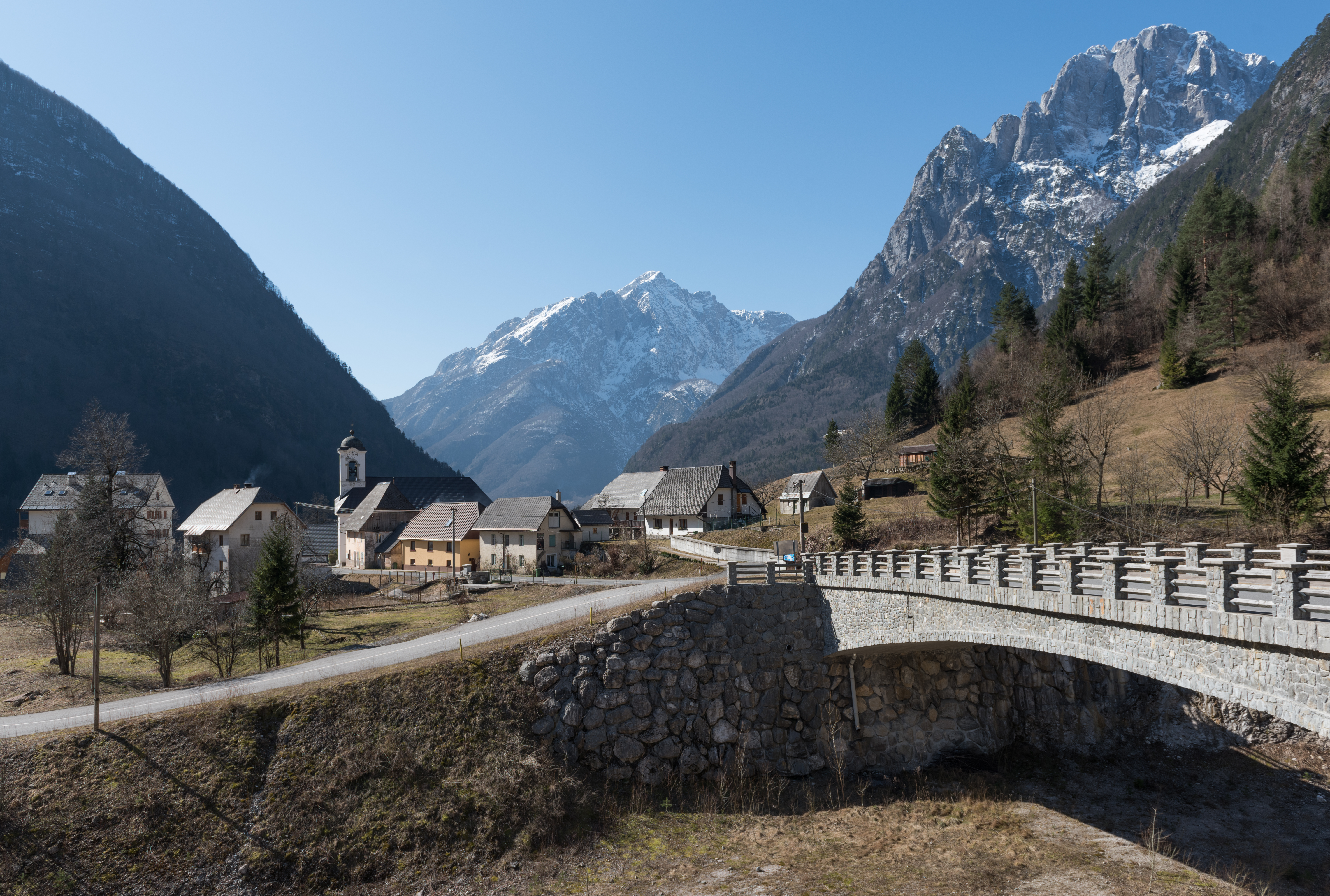 Log Pod Mangrtom and the Rombon in the background, municipality Bovec, Slovenia, EU